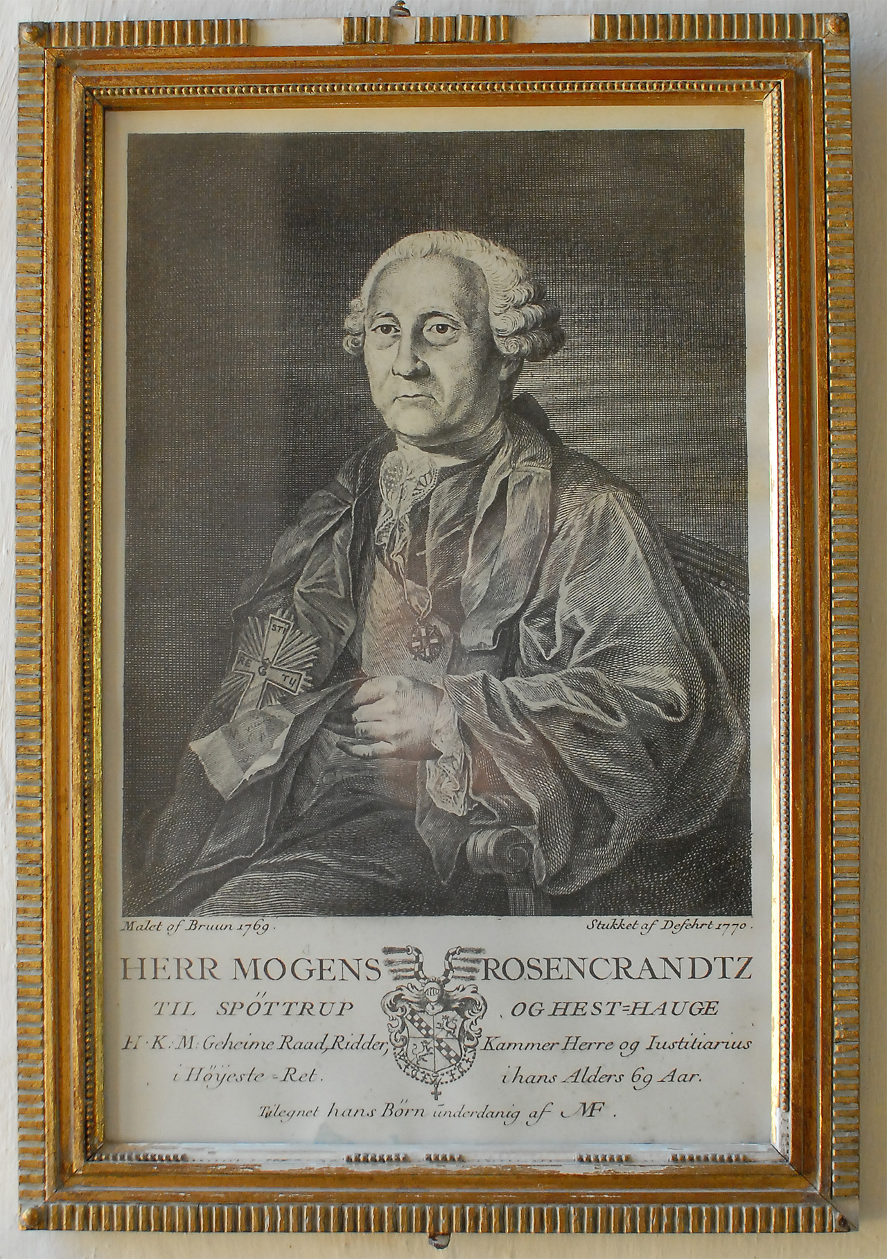 Picture of Mogens Rosenkrantz (1700-1778), owner of the manor Spøttrup in Jutland, Denmark